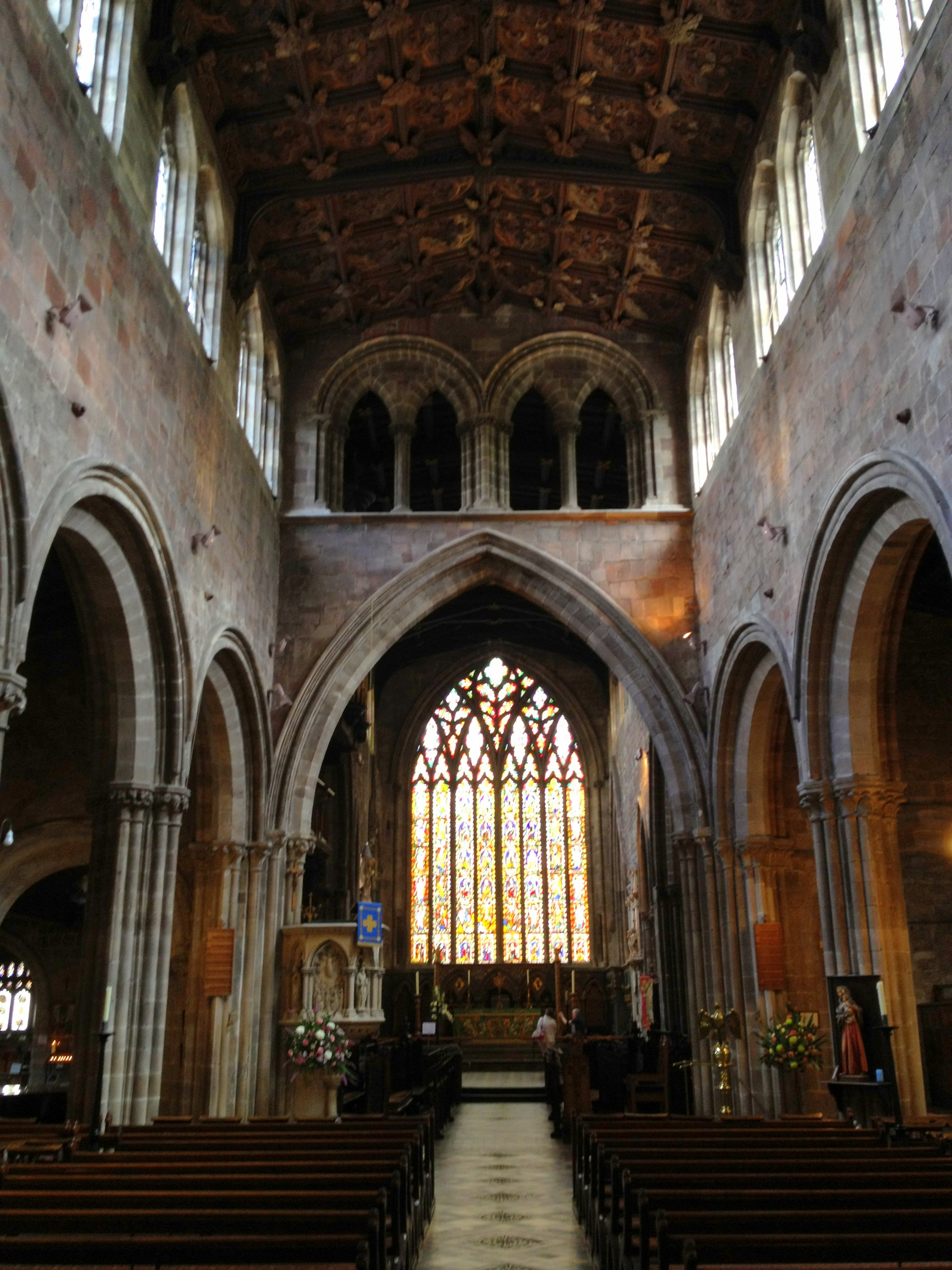 The nave of the Church of St Mary the Virgin, Shrewsbury